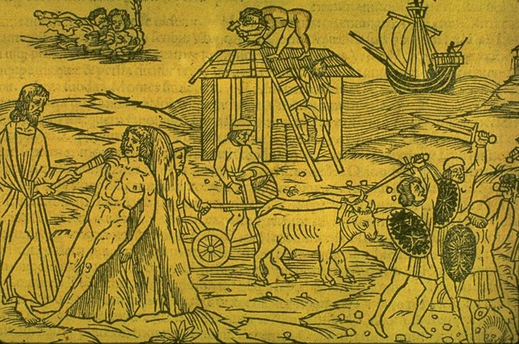 Four Ages of Man. Engraving by Regius for Ovid's Metamorphoses Book I, 89-150.